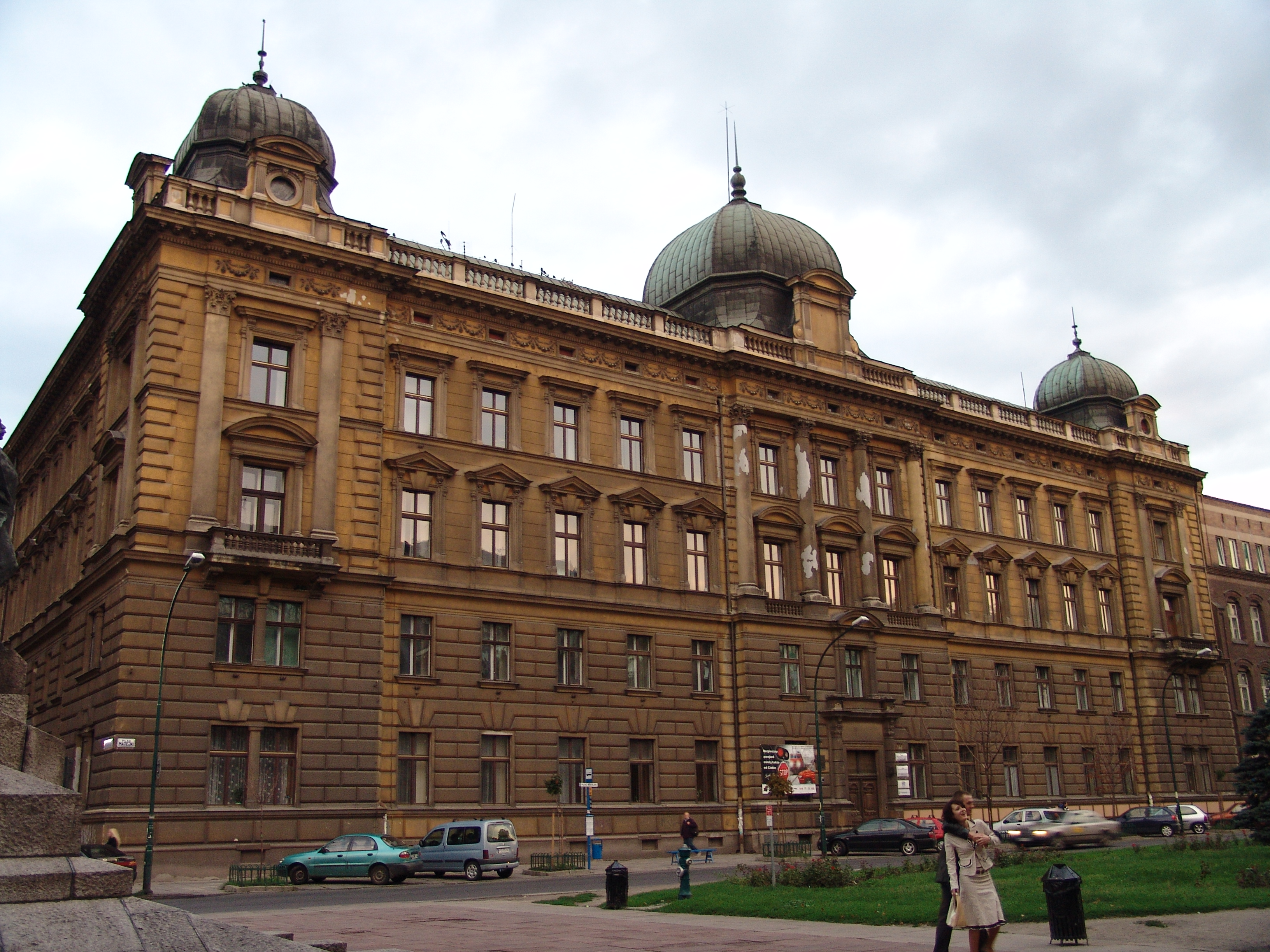 Buildings surrounding the Matejki place - Polish Railways